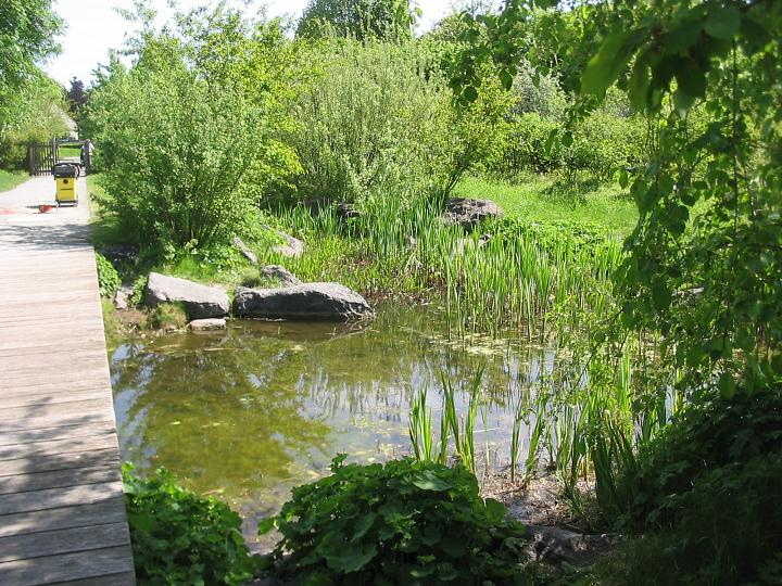 Comenius-Garten nearby the Böhmisches Dorf (Böhmisch-Rixdorf) in Berlin-Neukölln, Germany.